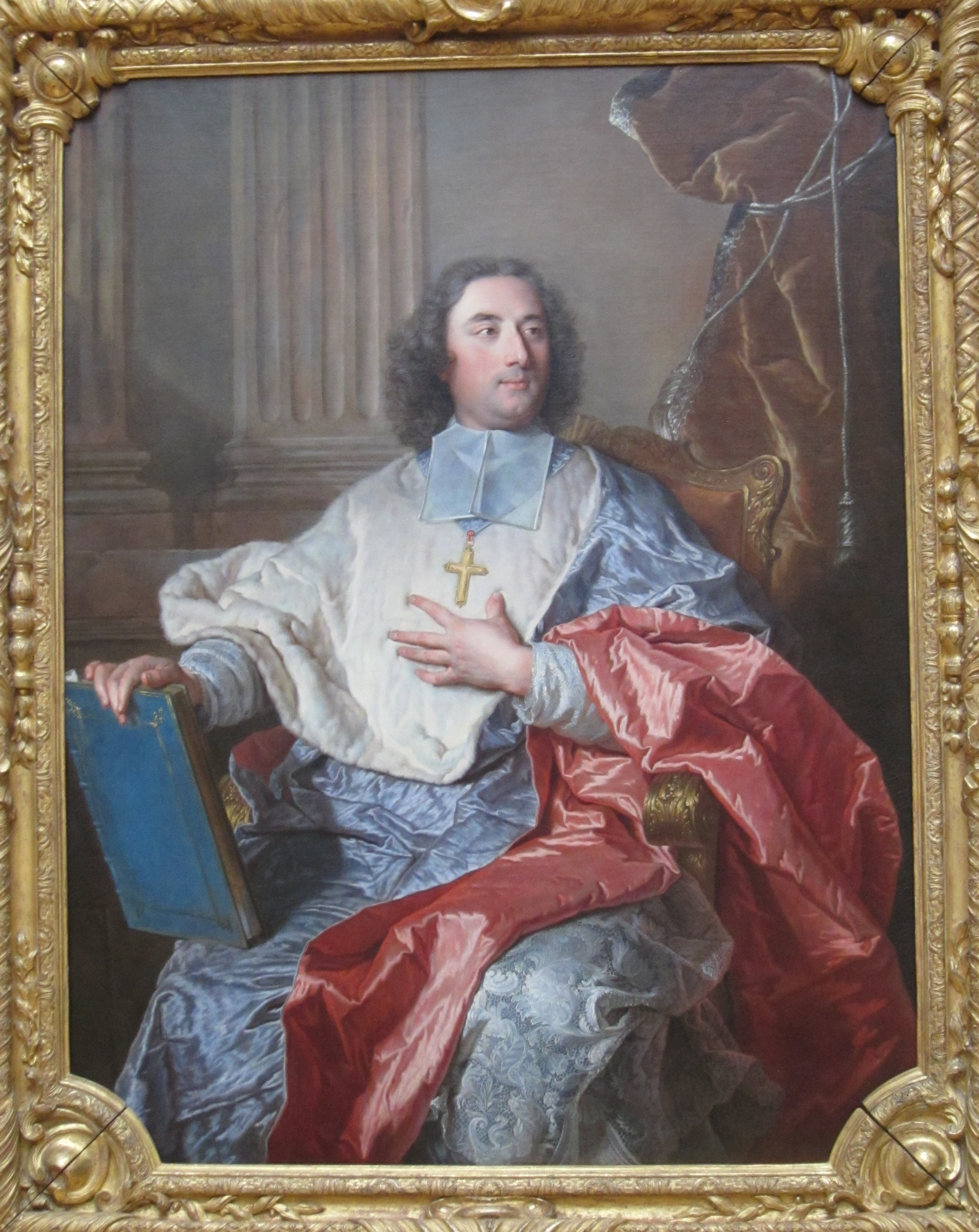 Charles de Saint-Albin, was the illegitimate son of Philippe d'Orléans, and a dancer at the opera